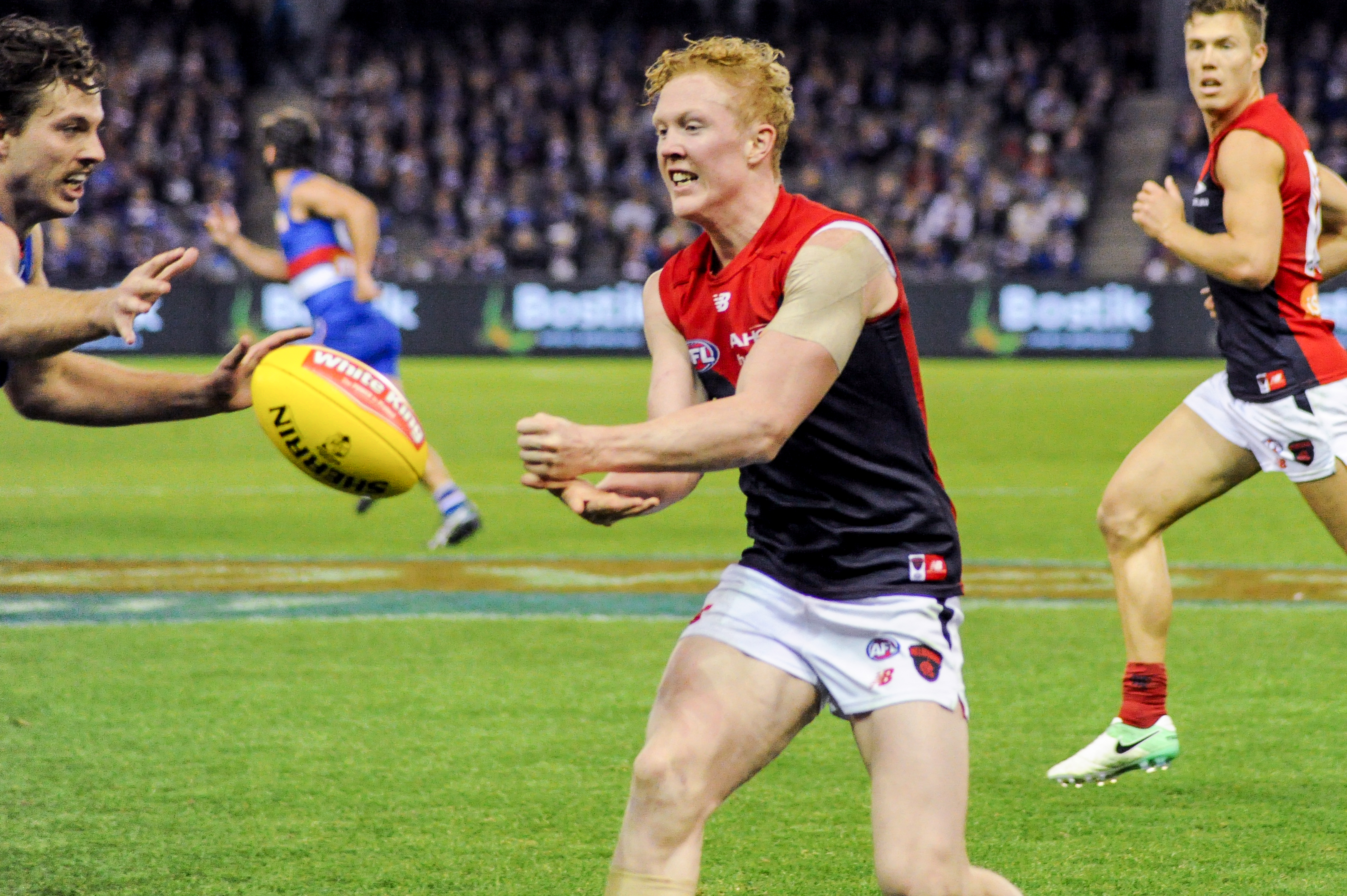 Clayton Oliver handballing during the AFL round thirteen match between the Western Bulldogs and Melbourne on 18 June 2017 at Etihad Stadium in Melbourne, Victoria.